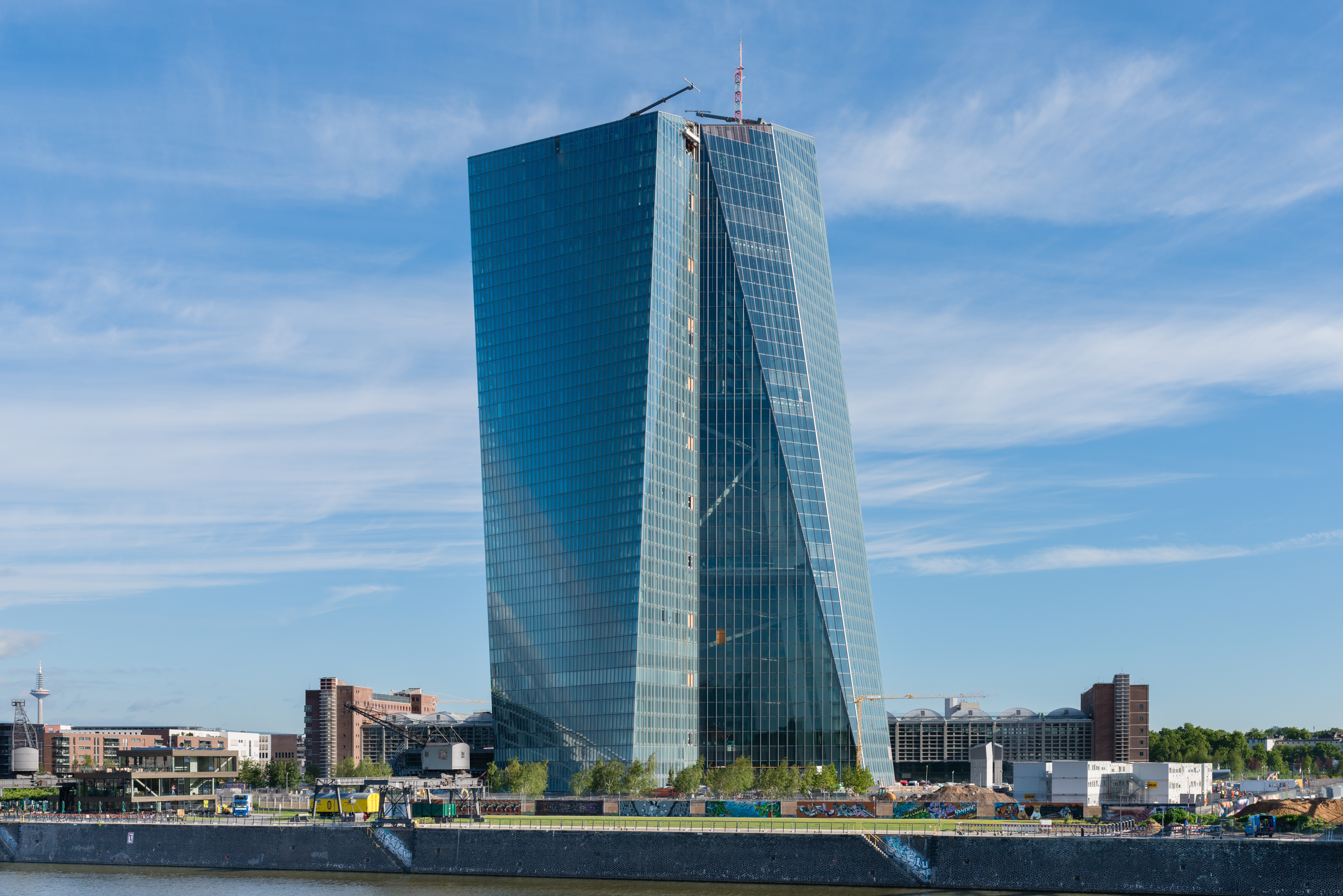 New building of the European Central Bank in Frankfurt Main, Germany.